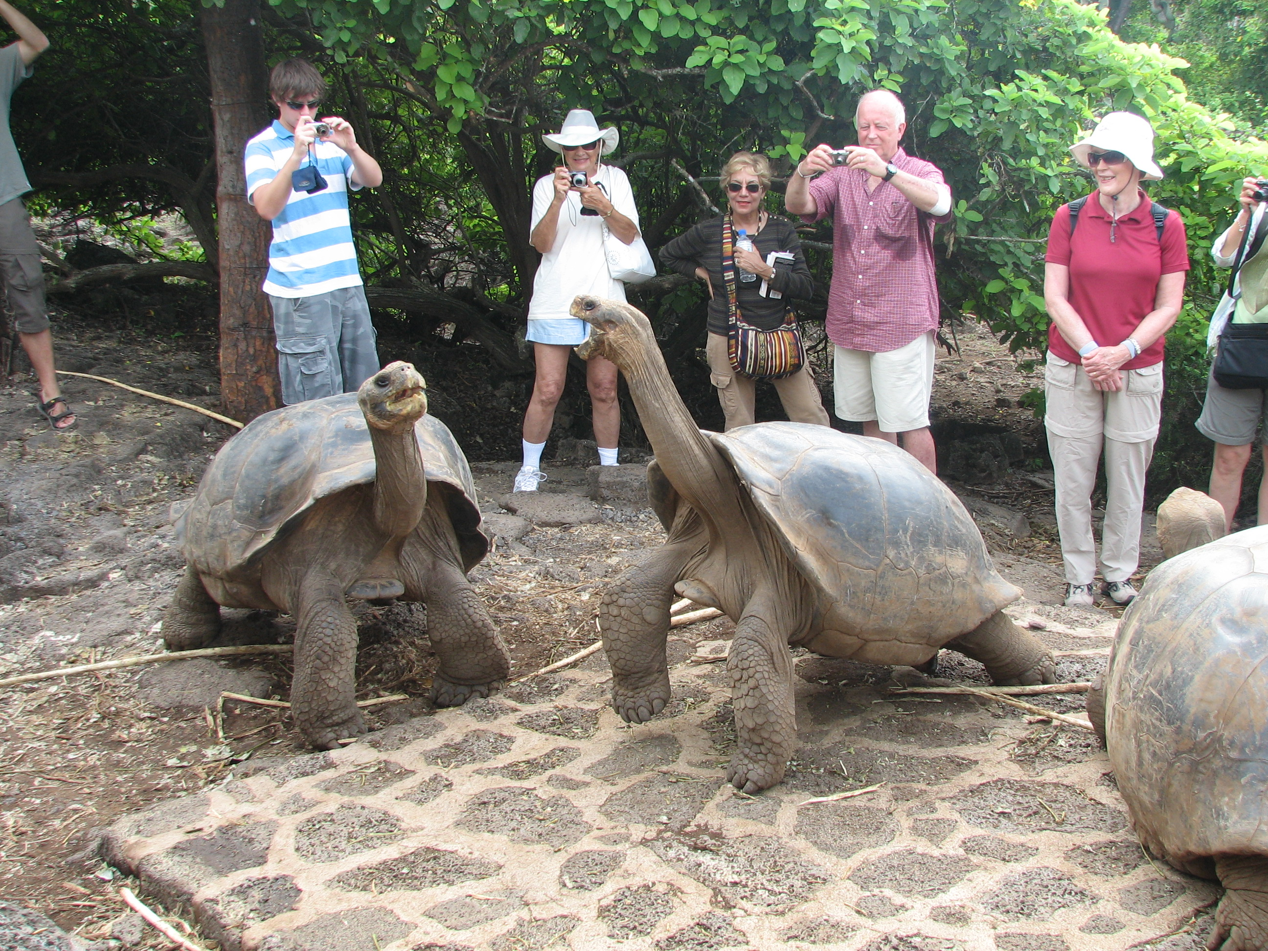 Giant Tortoises in the Charles Darwin Centre, Santa Cruz Island